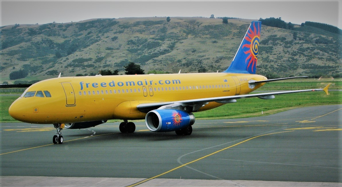 Freedom Air Airbus 320-232 at Dunedin International Airport, freshly arrived from Brisbane.